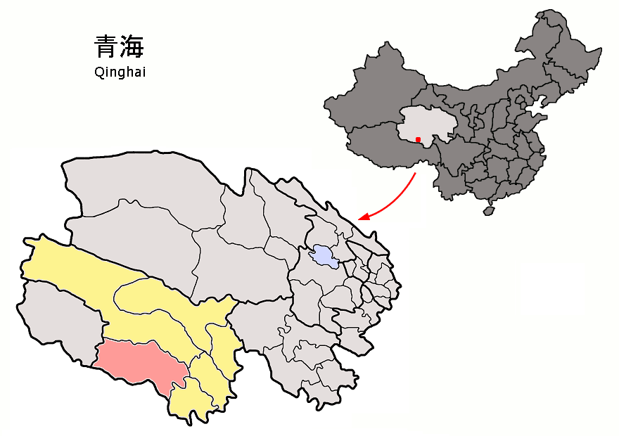 Location of Zadoi County (pink) and Yushu Prefecture (yellow) within Qinghai province of China Map drawn in september 2007 using various sources, mainly : Qinghai province administrative regions GIS data: 1:1M, County level, 1990 Qinghai Counties map from "Plateau Perspectives" (the limits of some county-level subdivisions may not be accurate)